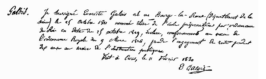 The contract to be engaged in public education for ten years after graduation in return for academic fees offered.